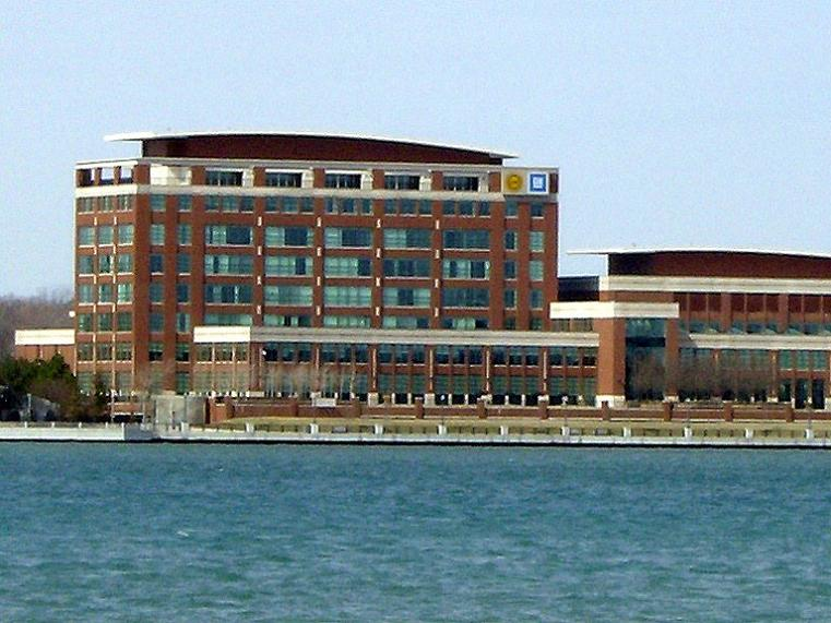 self made UAW-GM HR Institute, partnership, in Detroit on Walker Street